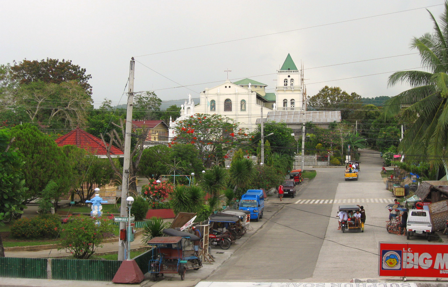 Poblacion, Tubigon, Bohol, the Philippines